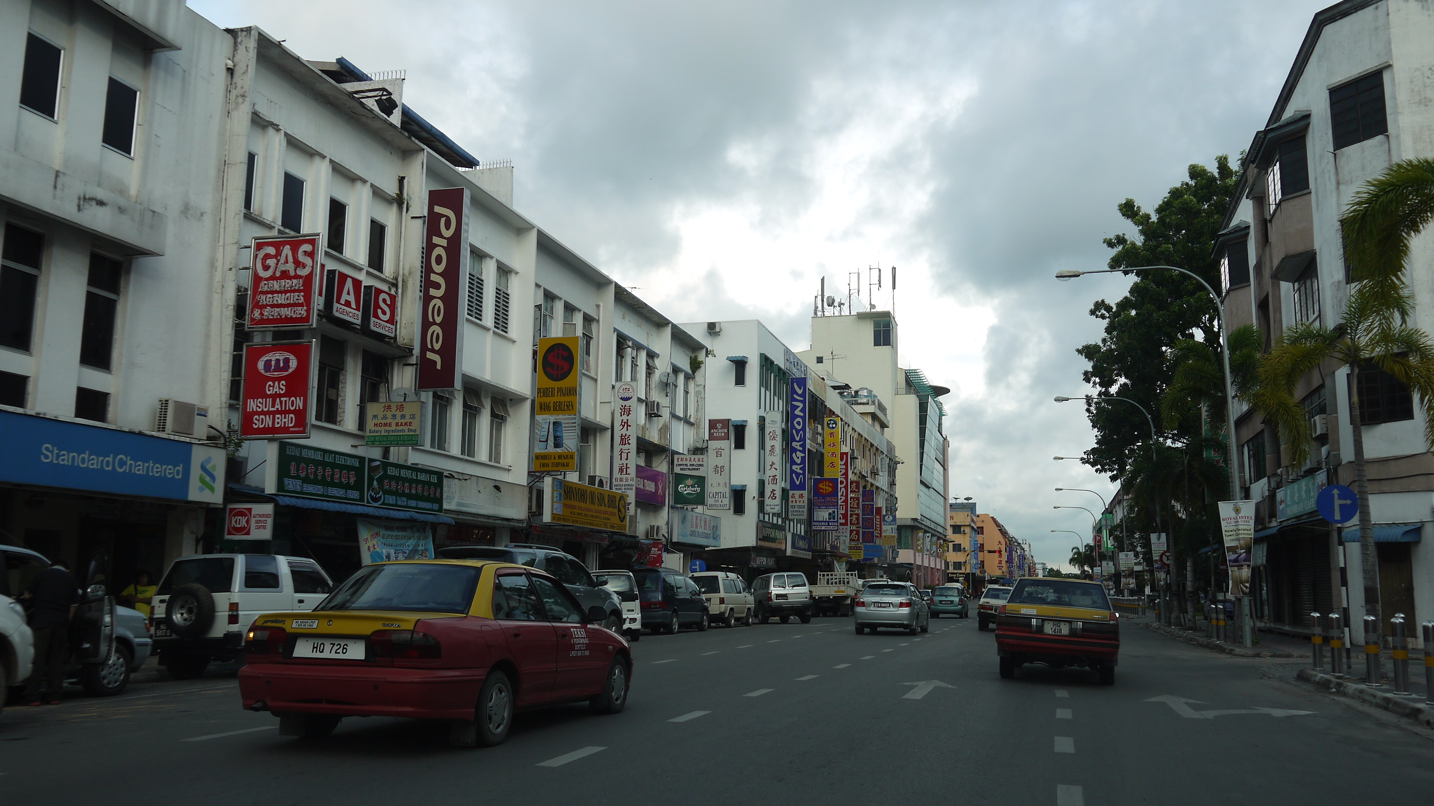 Downtown Bintulu, at the heart of the commercial district.